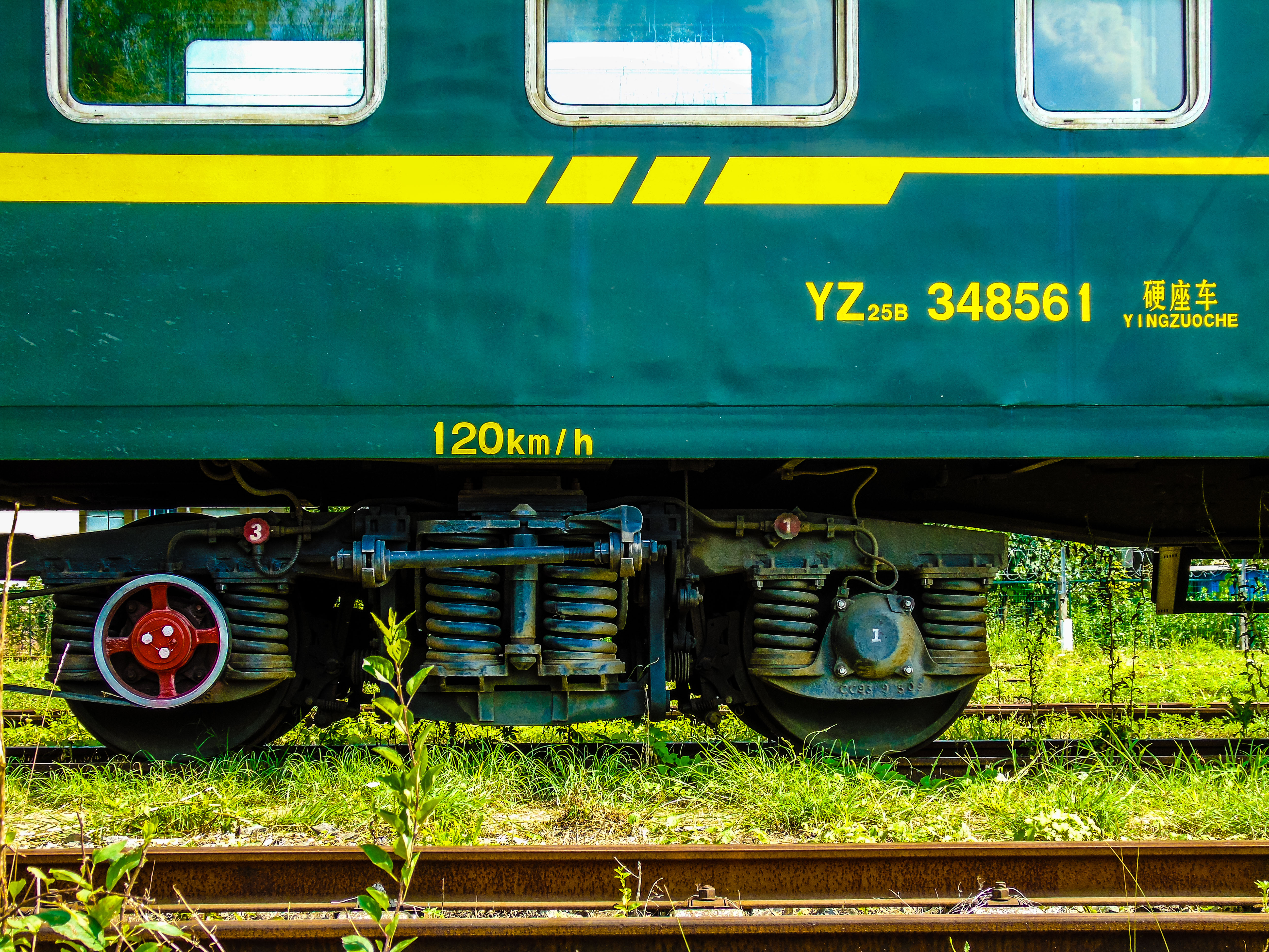 China Railway YZ25B 348561 Bogie